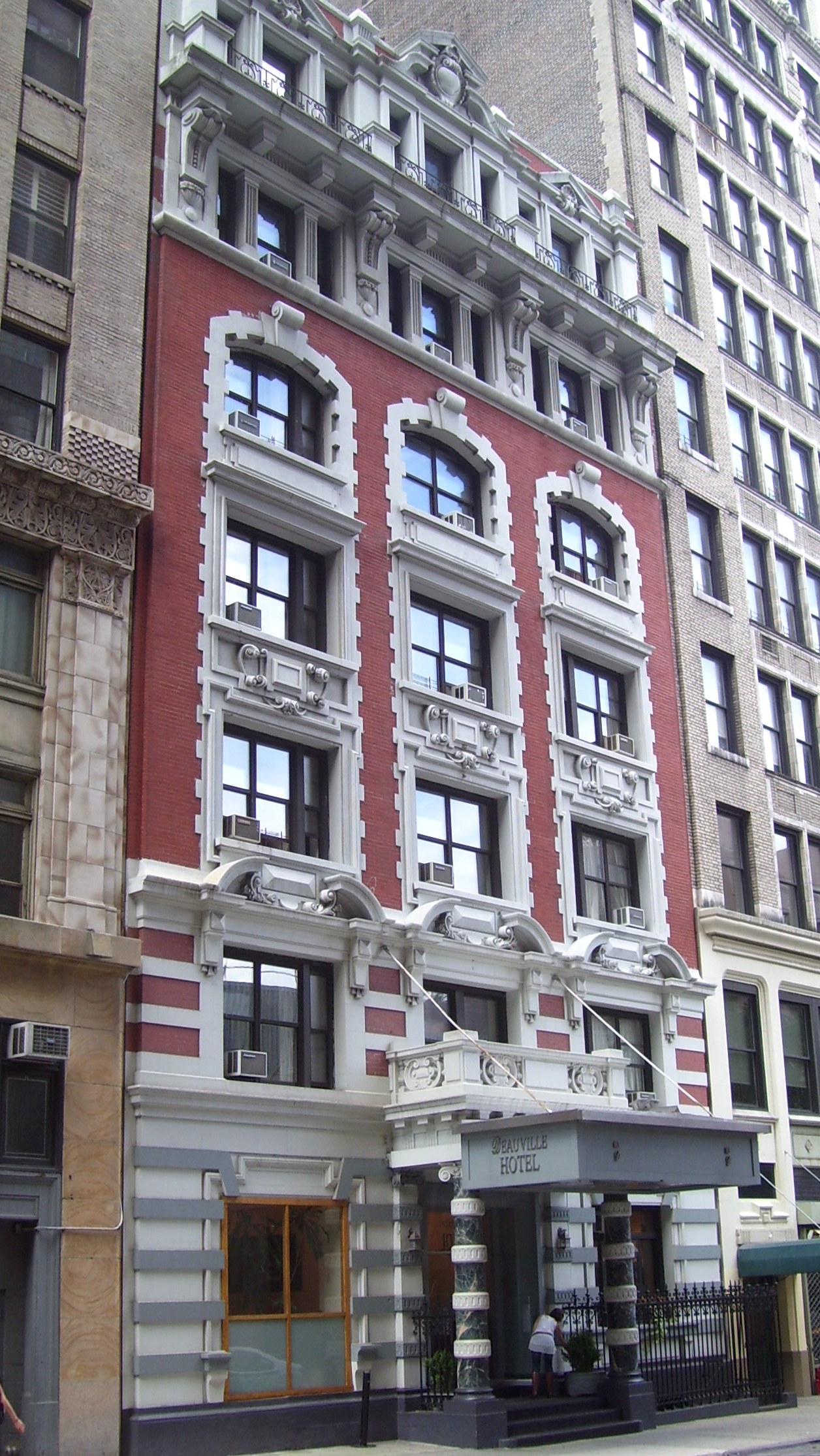 The Hotel Deauville at 103 East 29th Street between Lexington and Park Avenues in the Rose Hill neighborhood of Manhattan, New York City was built in 1920. (Source: NYC GIS map)